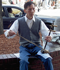 Taken on 5 May, 2006, in Harvard Square, Cambridge Massachusetts, United States. Musician is a local amateur jinghu player from Nanjing, China. By Dan4th Nicholas.